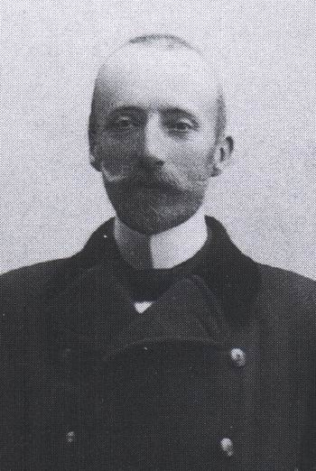 Admiral Archduke Karl Stephan of Austria-Teschen (1860-1933), photo made around 1900.